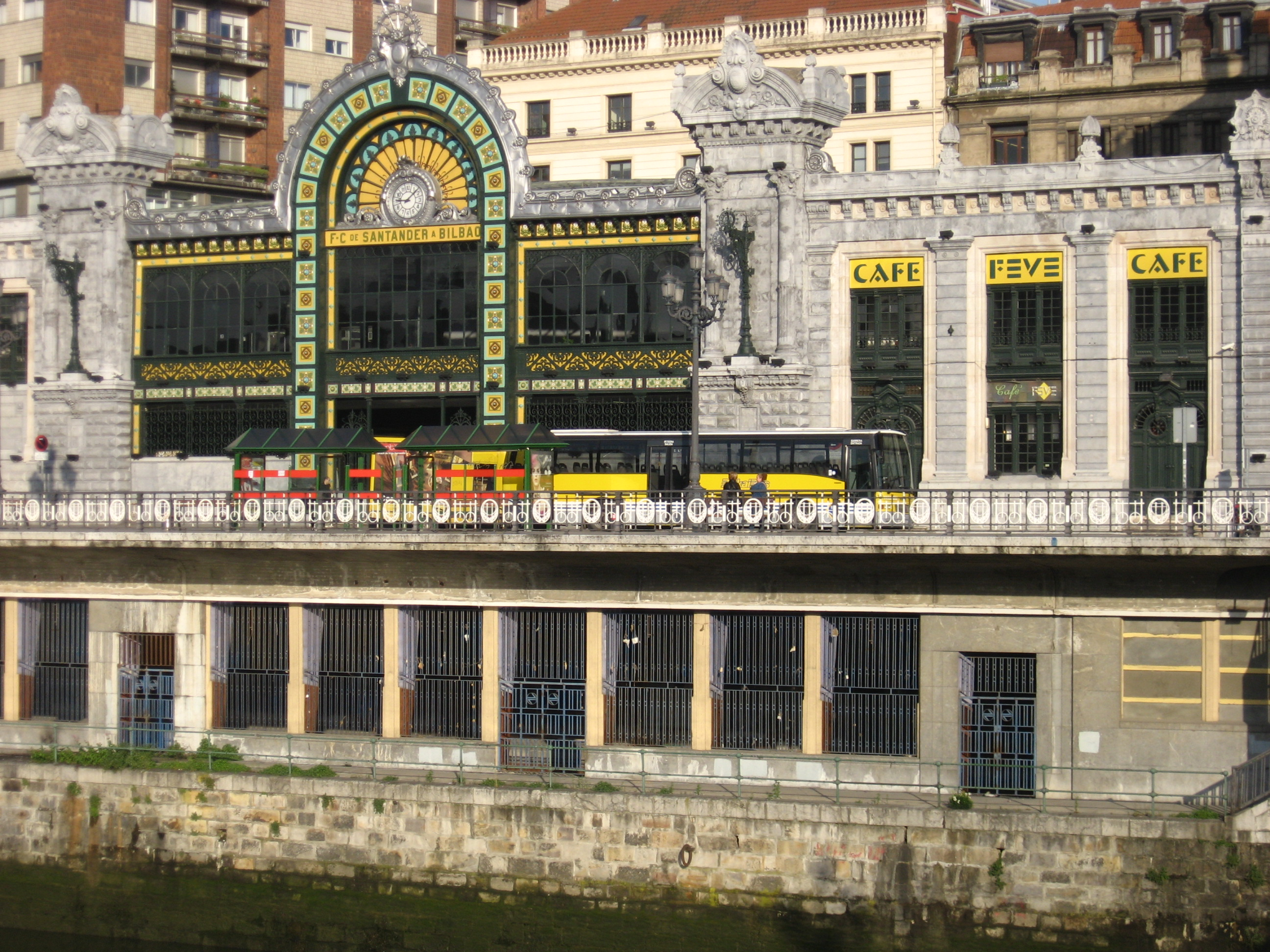 The FEVE Concordia station in Bilbao. Underneath there used to be RENFE trains.